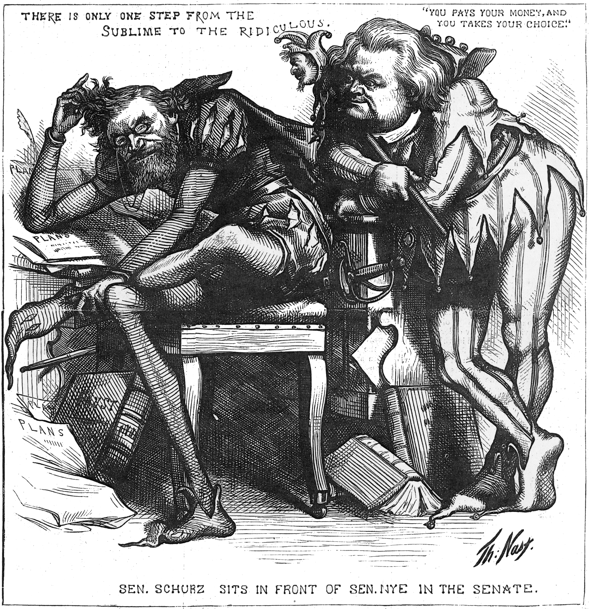 Carl Schurz, in his Richard III outfit, is sitting in his seat in the U.S. Senate. His neighbor, James W. Nye of Nevada in a jester's costume, stands behind his seat leaning on the back of it contemplating Schurz who is mussing his hair Stan-Laurel style.